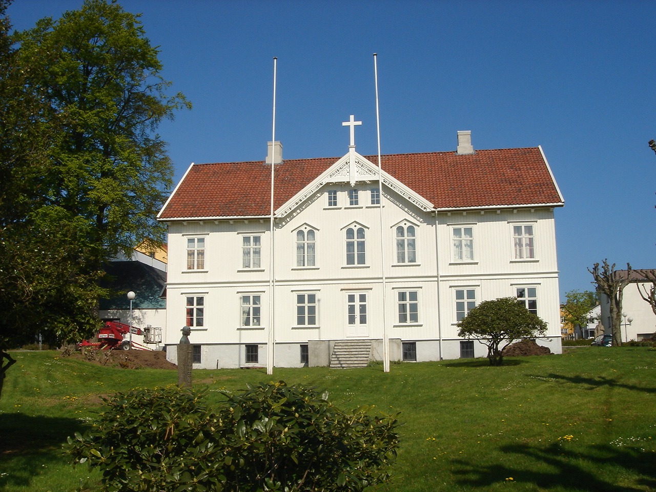 School of Mission and Theology, Stavanger, Norway, the oldest building